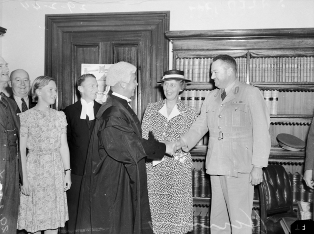 Lady Herring (with hat) looks on as Sir Edmund Herring, the new Chief Justice of Victoria, greets guests at an informal reception in his rooms. Major General C. E. M. Lloyd, CB CMG CVO DSO, Adjutant General, congratulates Sir Edmund on his appointment. Also seen on the left are Mr C. Z. Woinarski, Acting Associate to the Chief Justice and Mrs Woinarski.